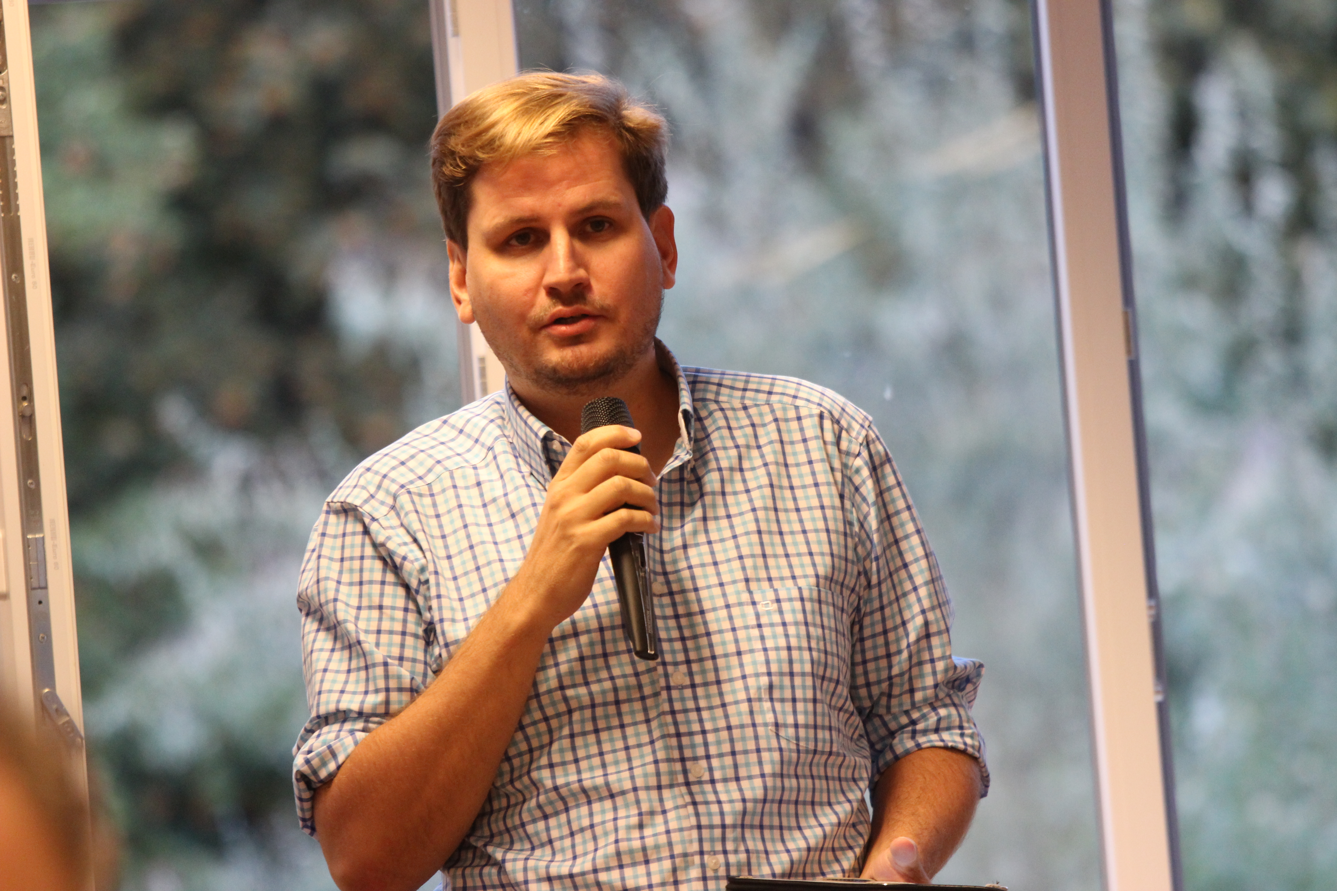 Zoltan Pogatsa at a public lecture